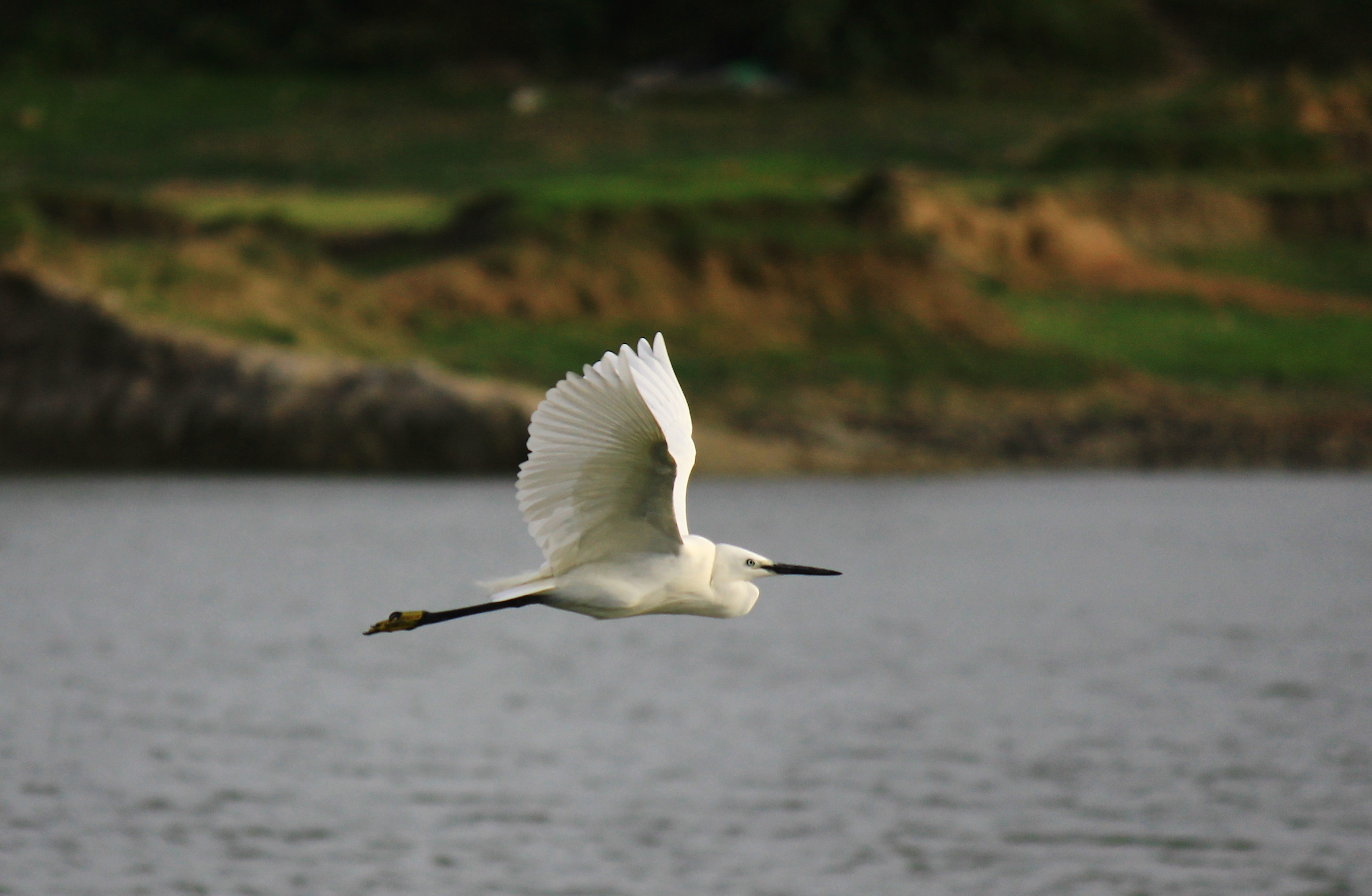 A Little egret (Egretta garzetta garzetta) seen flying with its neck retracted. This picture was taken at Chennai, India.